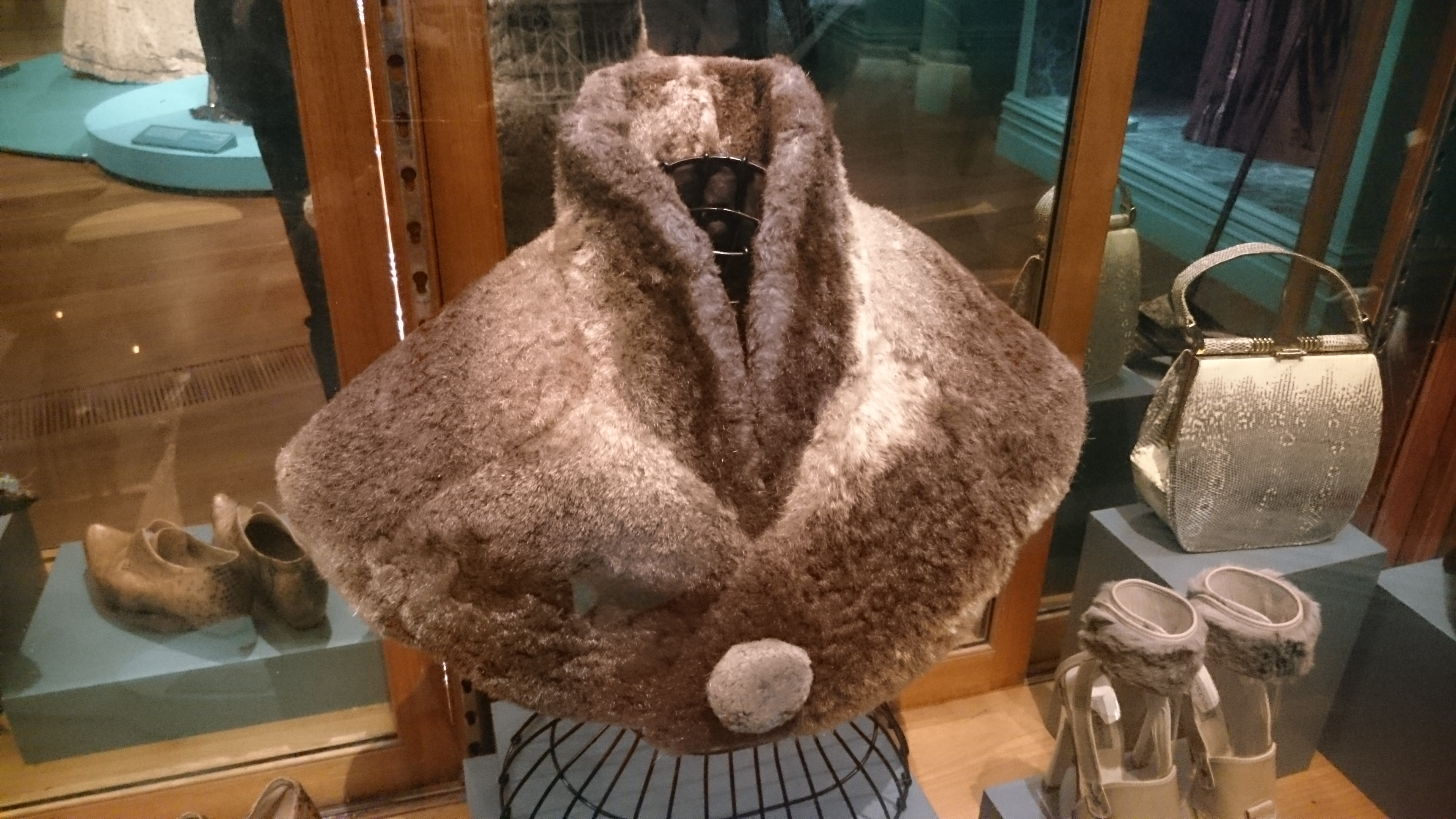 c. 1890 platypus fur, silk and cotton